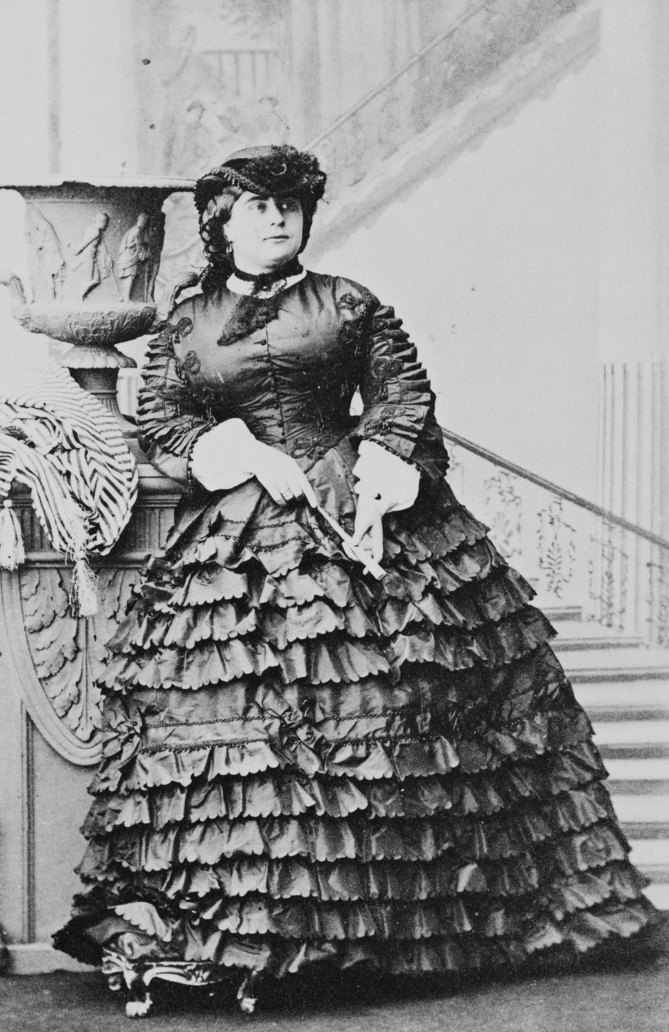 Princess Mary Adelaide, Duchess of Teck (1833-1897), Philanthropist; Mother of Queen Mary